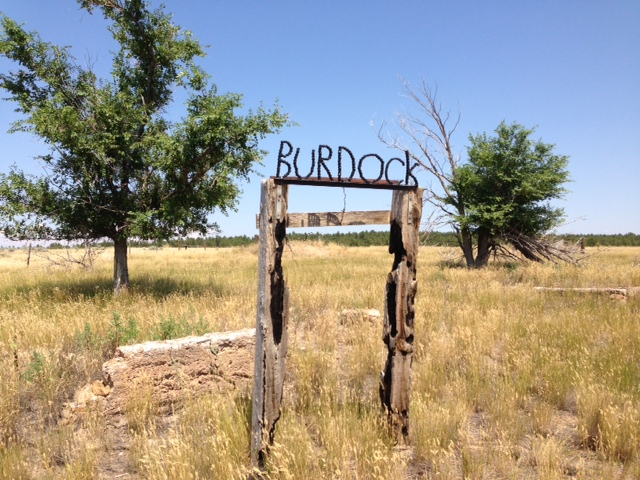 Metal chain on wood sign marking the ghost town of Burdock, South Dakota